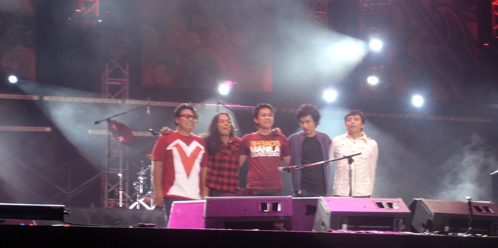 Members of the Eraserheads at "The Final Set" Reunion Concert: (R to L) Buddy Zabala, Ely Buendia, Raimund Marasigan and Marcus Adoro together with Jazz Nicolas of Itchyworms (far left) as their session player